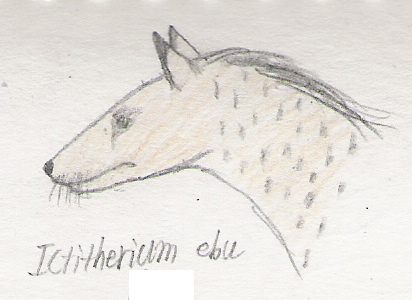 Ictitherium ebu, a primitive hyaena from Africa.